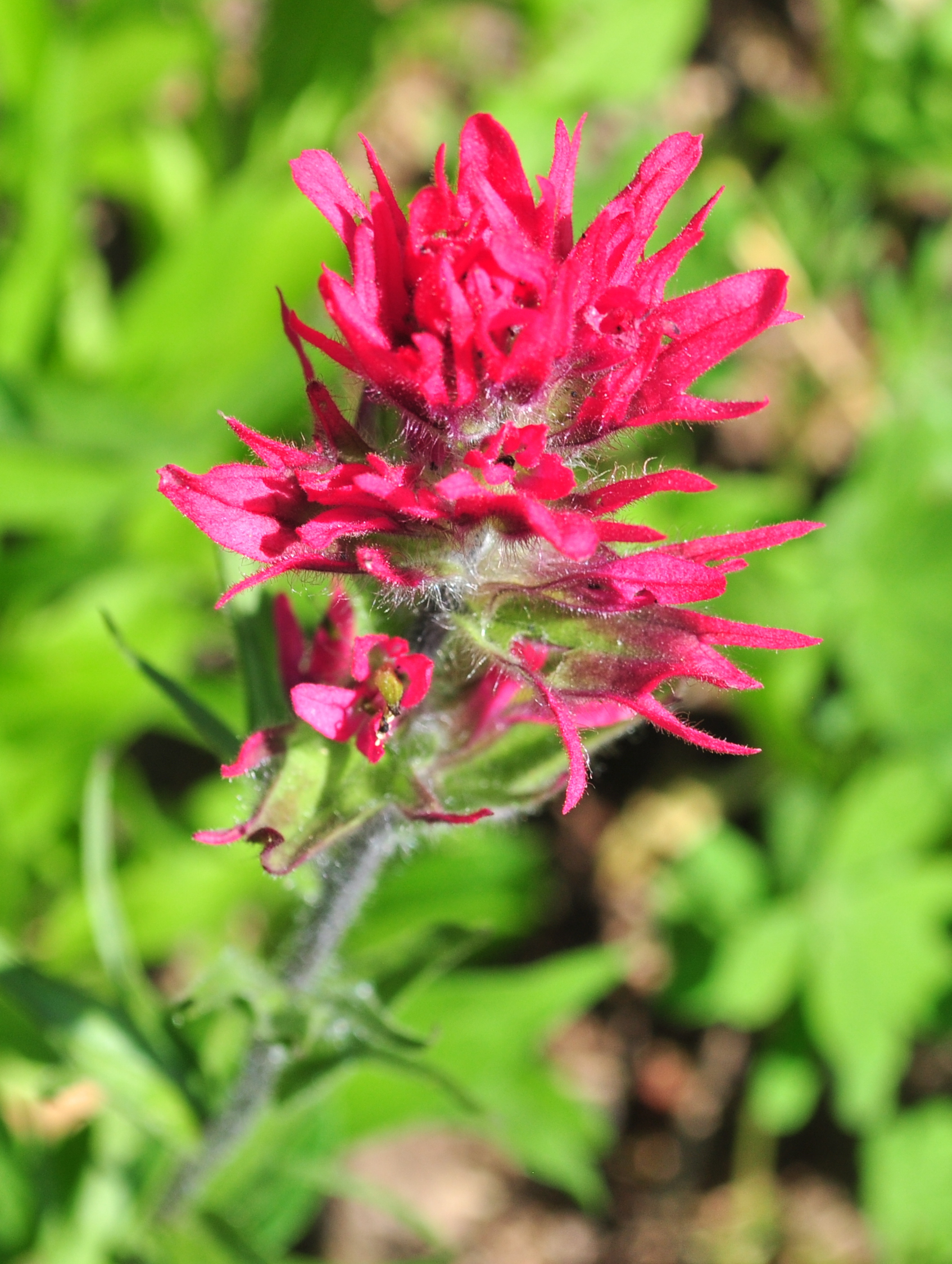 Castilleja parviflora (Mountain Indian Paintbrush, Small-flowered Paintbrush), subalpine meadow, Paradise, Mount Rainier National Park, Washington state, U.S.